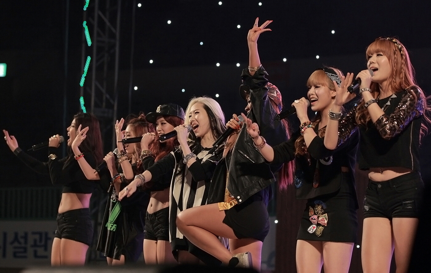 Wassup (South Korea musical group)